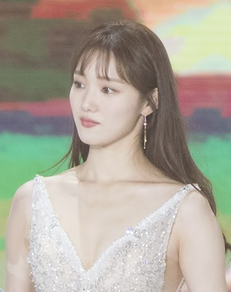 Lee Sung-kyung at 32nd Golden Disc Awards, 10 January 2018